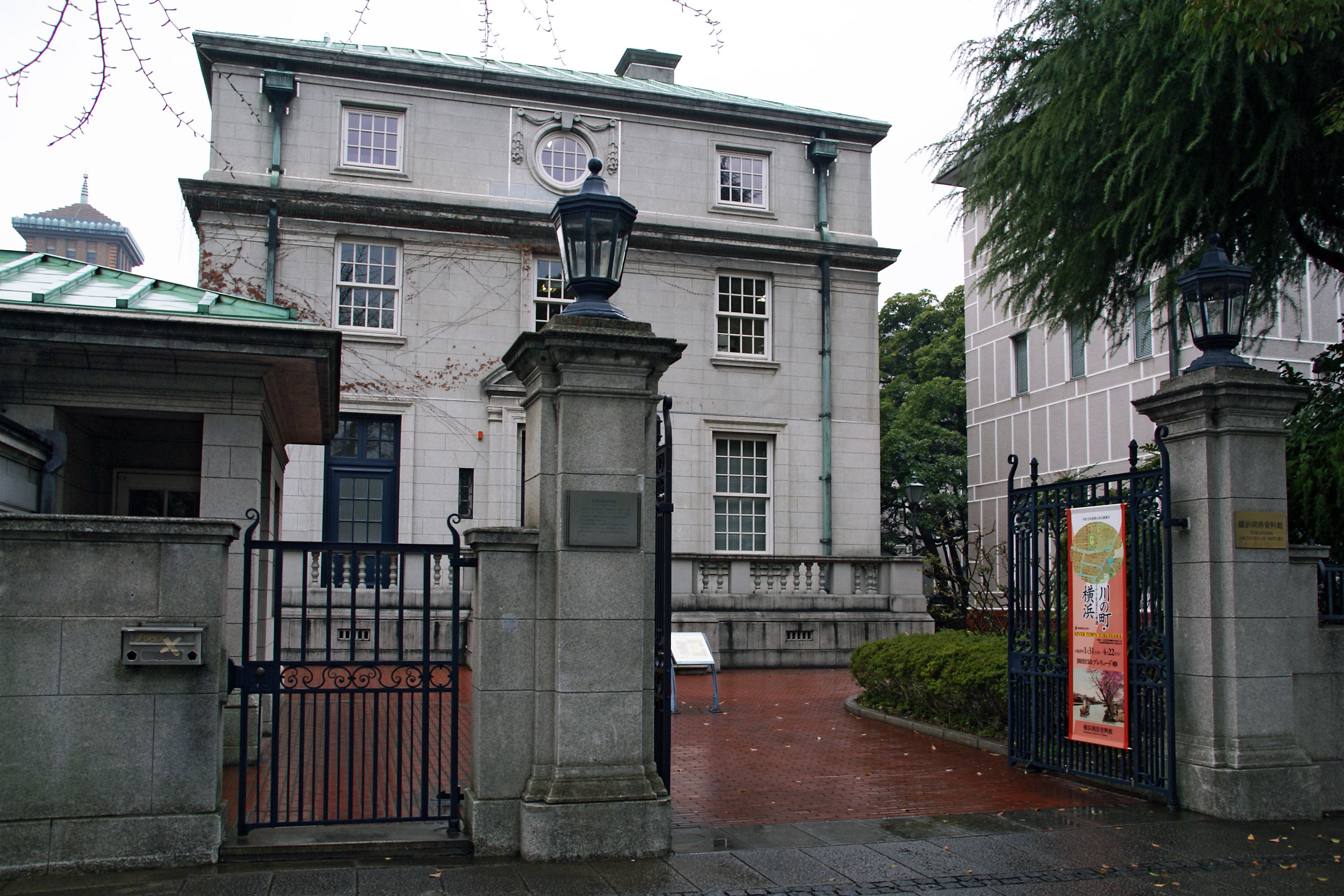 Yokohama Archives of History in Yokohama, Kanagawa prefecture, Japan